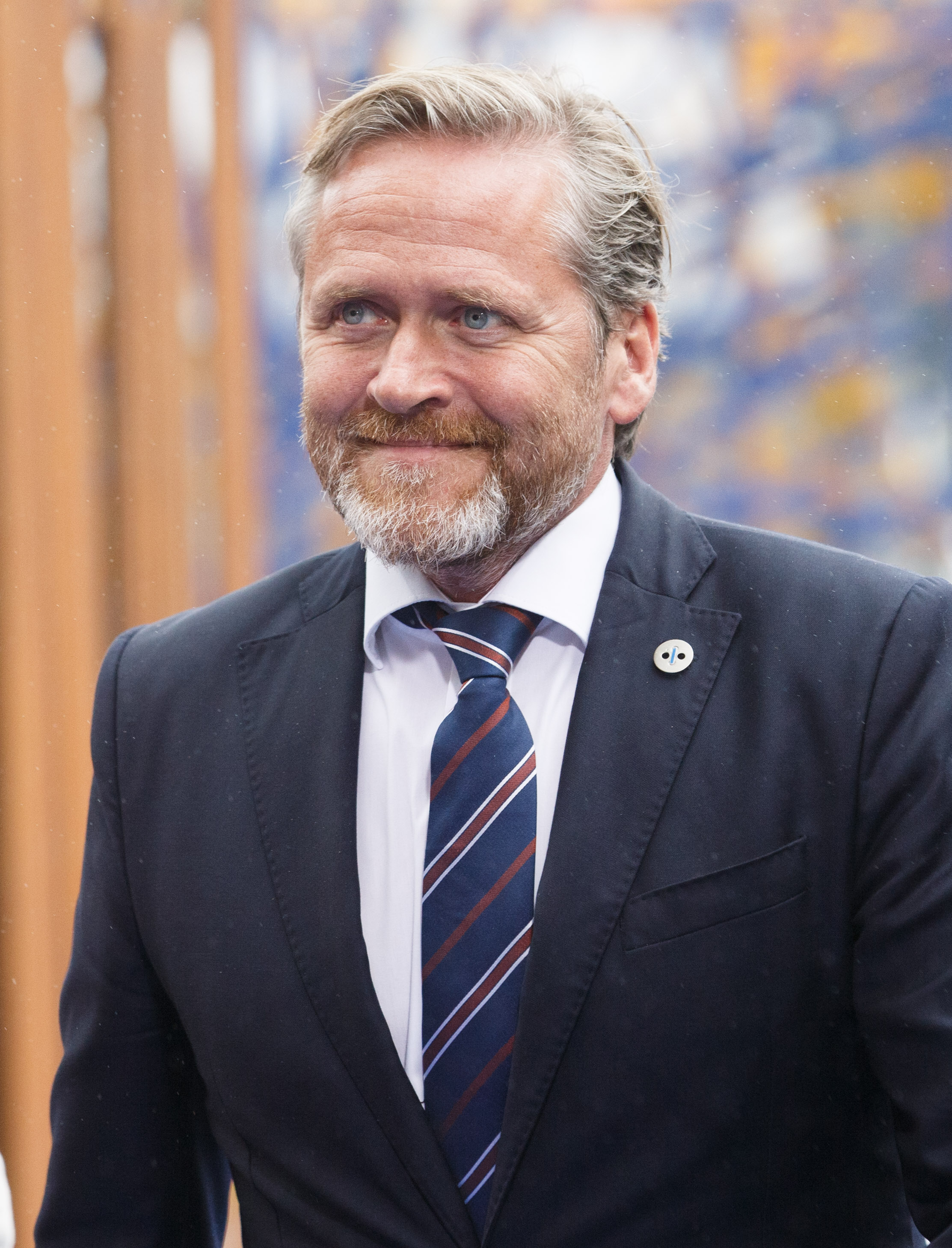 Anders Samuelsen, Minister, Ministry of Foreign Affairs, Denmark Photo: Raul Mee (EU2017EE)